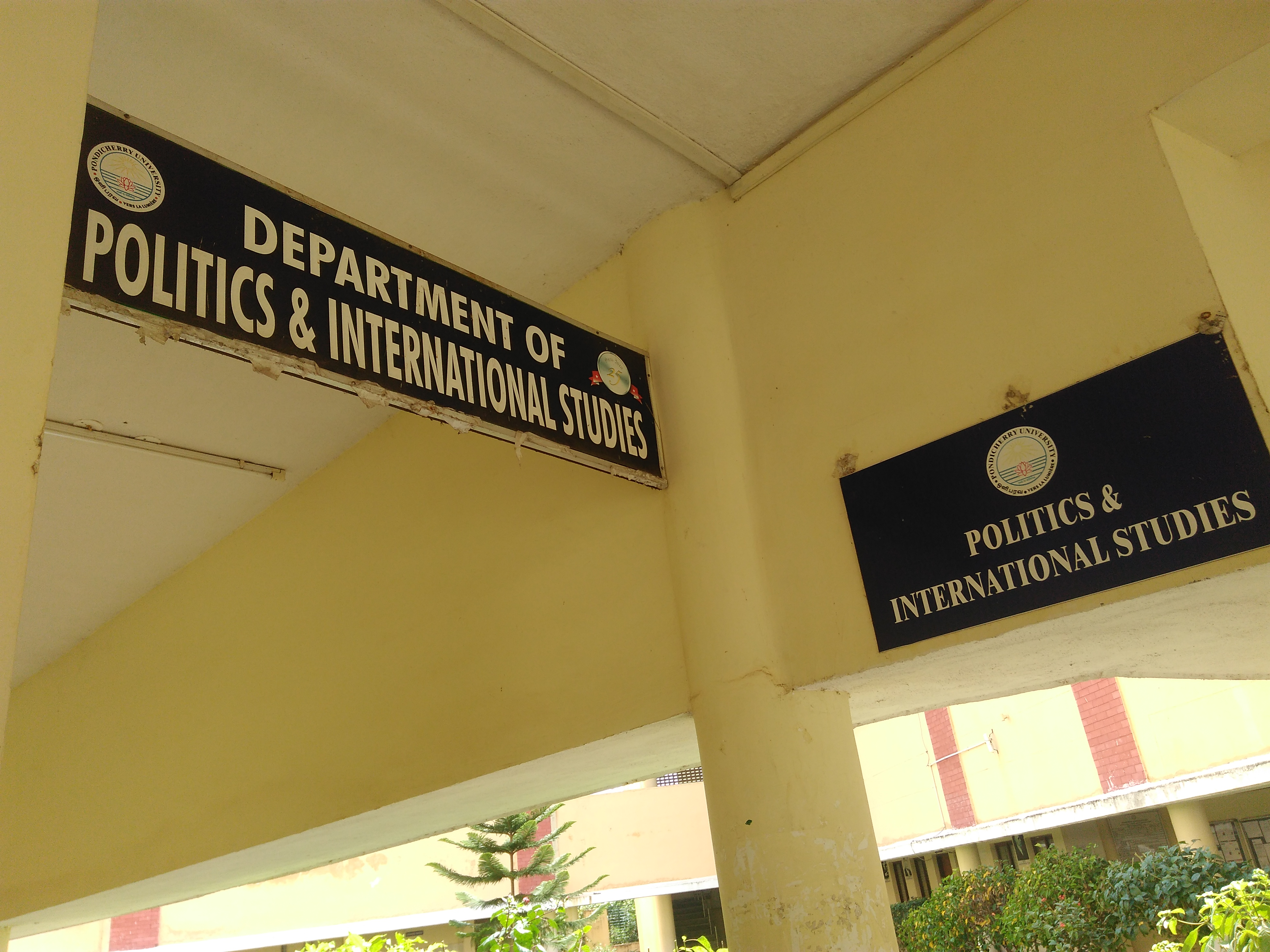 dept. of politics and international relations